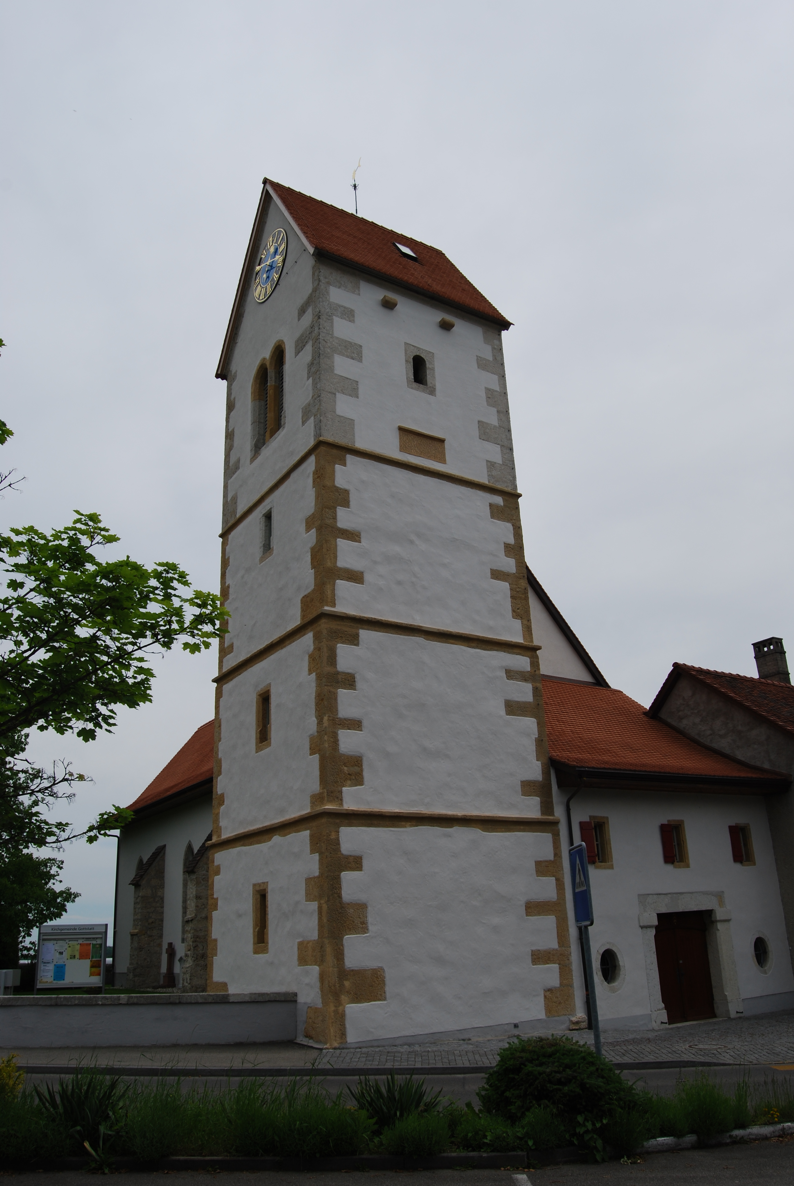 Monastery Church Gottstatt, Orpund, canton of Bern, SwitzerlandEsperanto: Monaĥeja Preĝejo Gottstatt, Orpund, Kantono Berno, Svislando